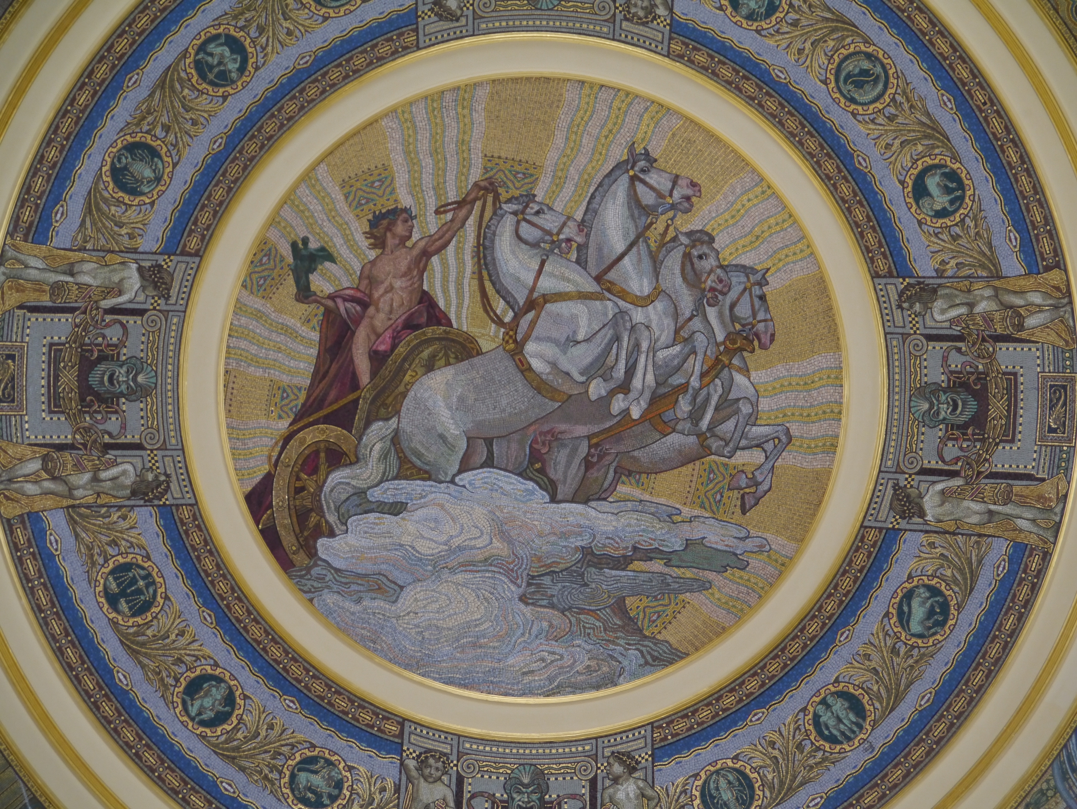 Dome of the entrance hall of the Széchenyi Bath, Budapest, Northern Hungary